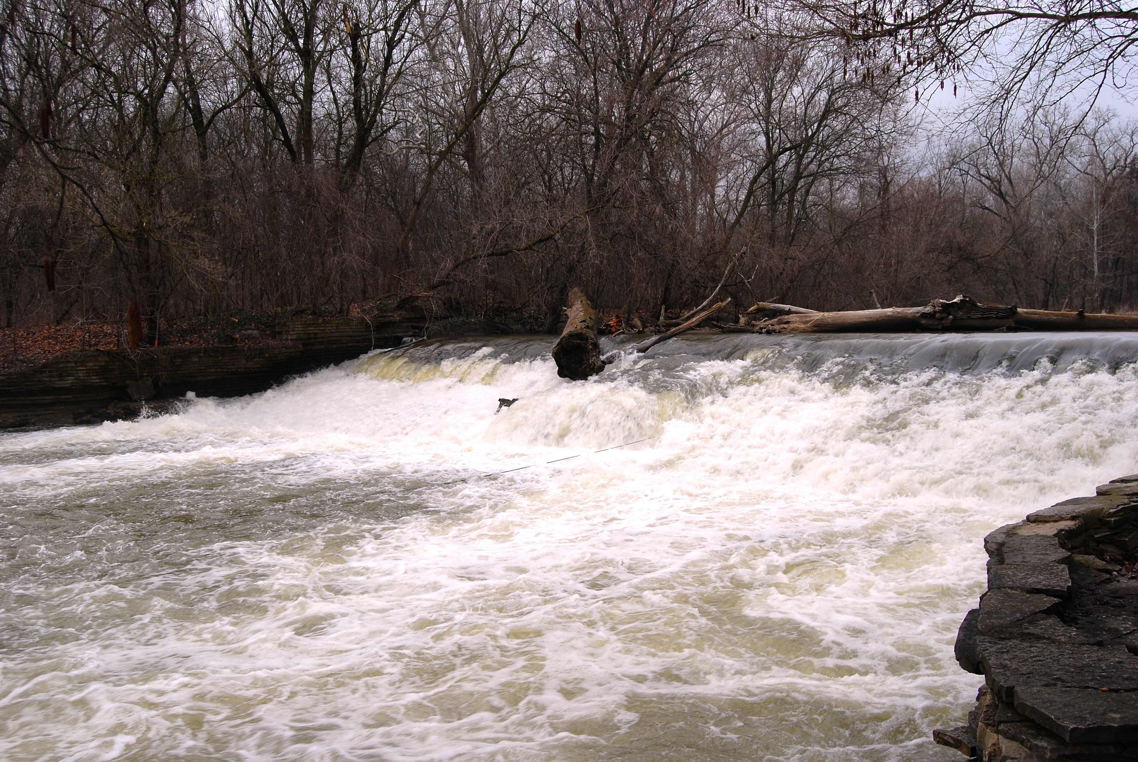 Fair Lane, Henry Ford Estate, Dearborn, Dam on the Rouge River, taken in spring